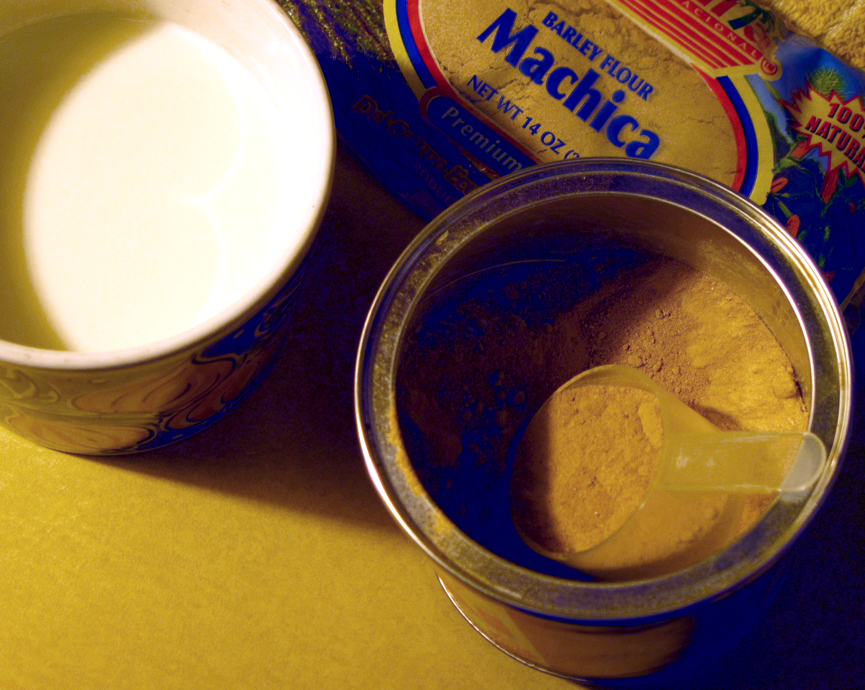 A mug filled with cold milk; a bag of máchica (toasted barley flour); and an open tin filled with pinol, which is máchica mixed with ground panela (unrefined cane sugar) and spices (usually including aniseed and cinnamon). The pinol mix will be combined with the milk in a saucepan and brought to a simmer while stirring to combine.